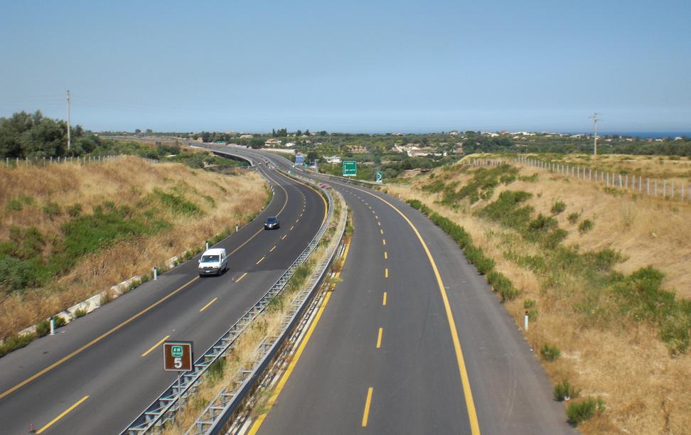 The Italian motorway A18 near Noto, Sicily.